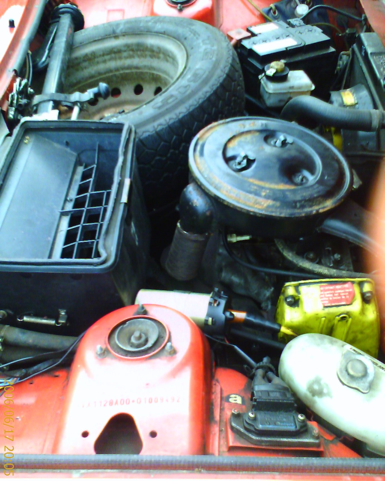 1116cc Fiat 128 engine in a Zastava Yugo 311